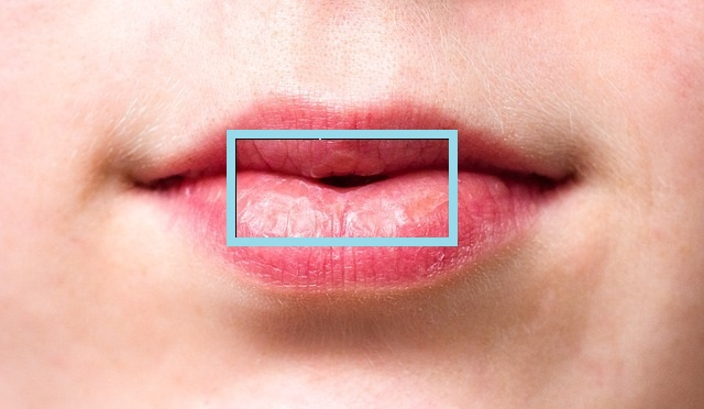 The shape of mouth when ㅁ is pronounced